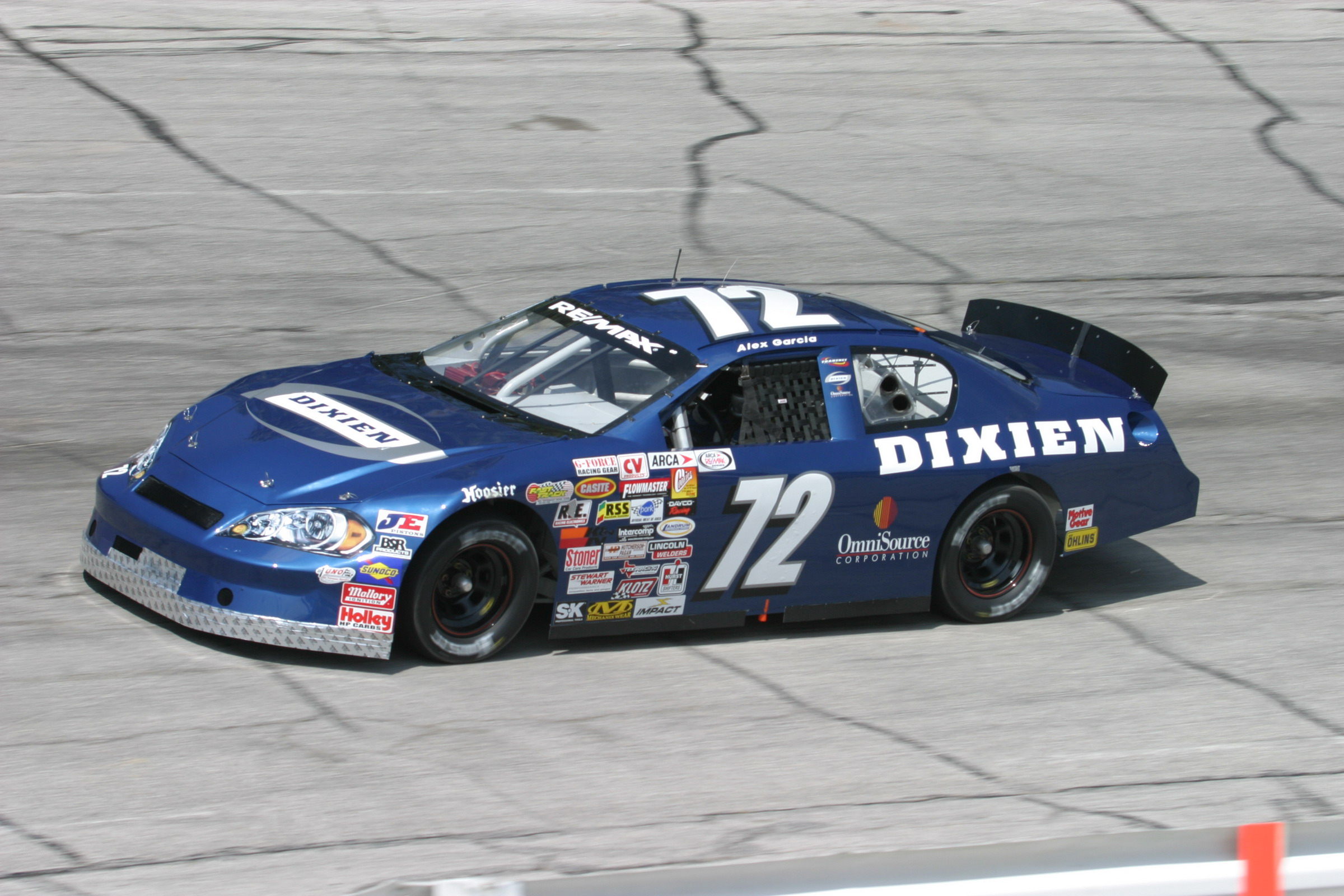 Venezulean racer Alex Garcia at Salem Speedway in September 2006, making his ARCA RE/MAX Series debut